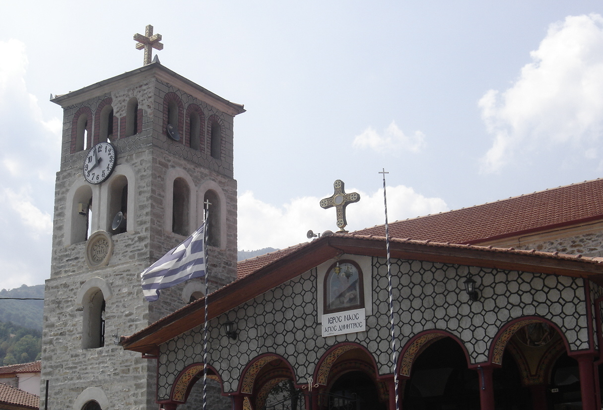 Agios Dimitrios. Church of St. Dimitrios.